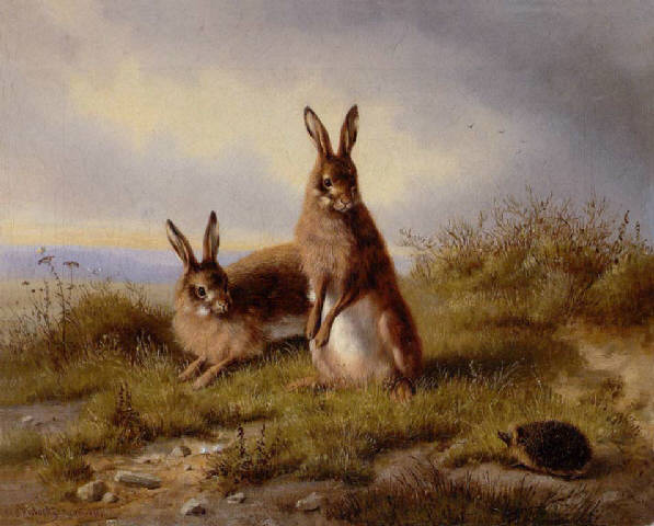 Two rabbits and a hedgehog